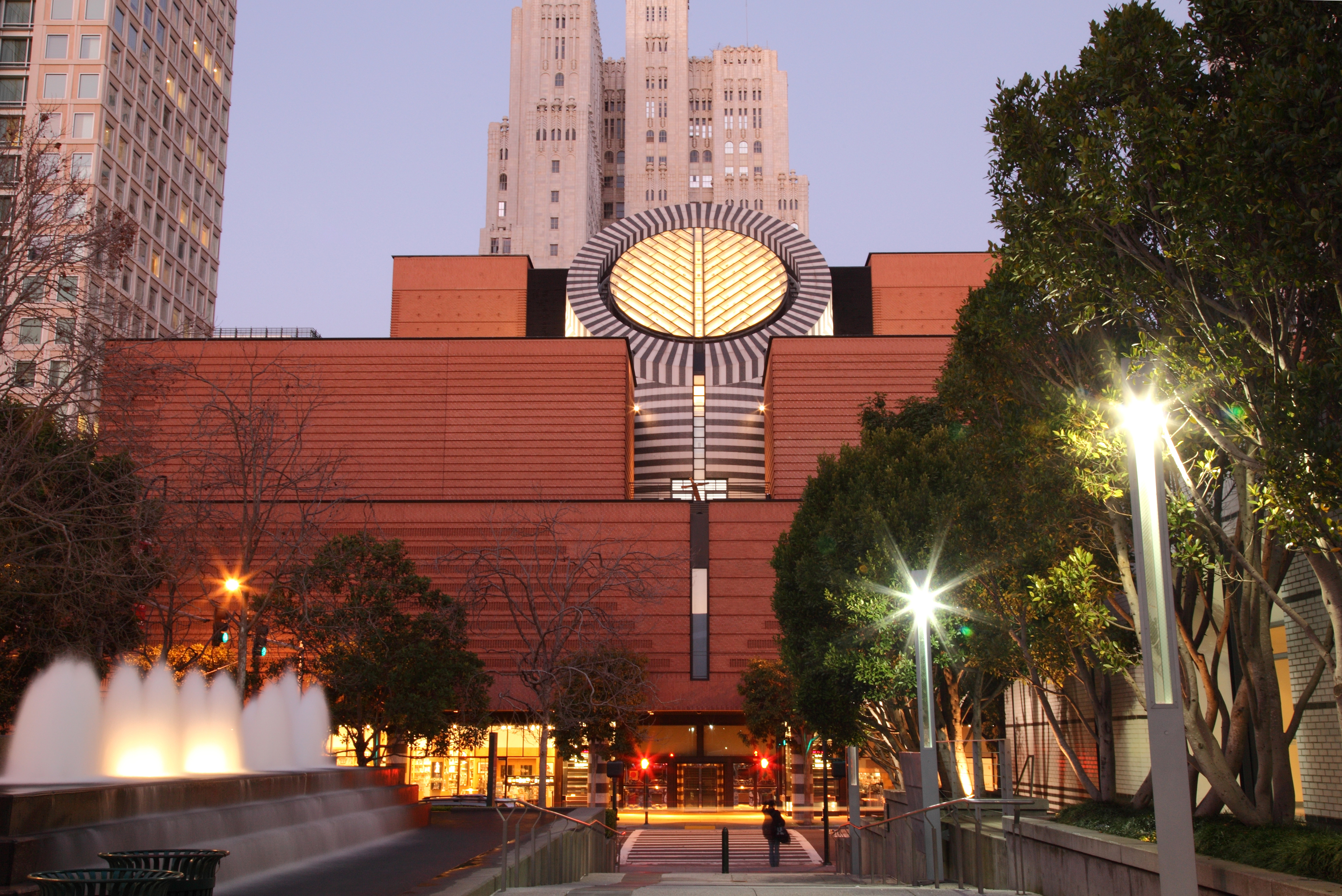 San Francisco Museum of Modern Art on Third Street in San Francisco